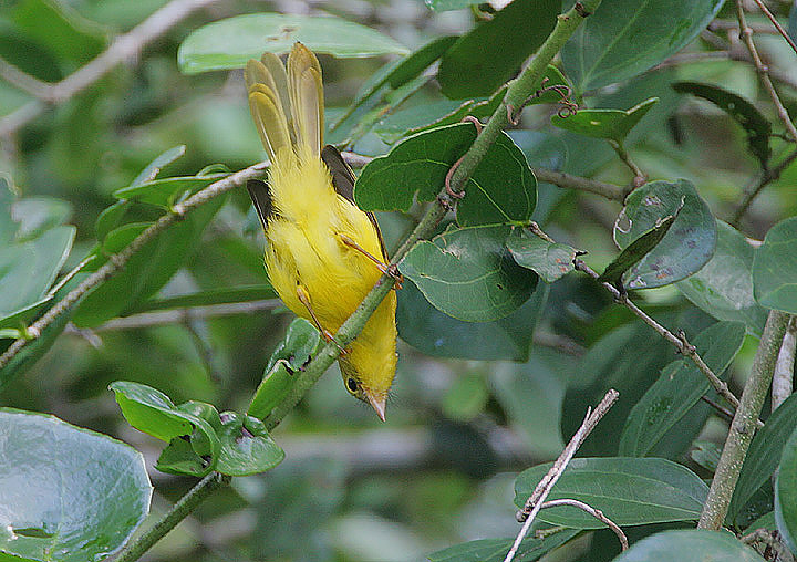 A ventral view. Image taken in Brachystegia woodland within Arabuko-Sokoke Forest in coastal Kenya.